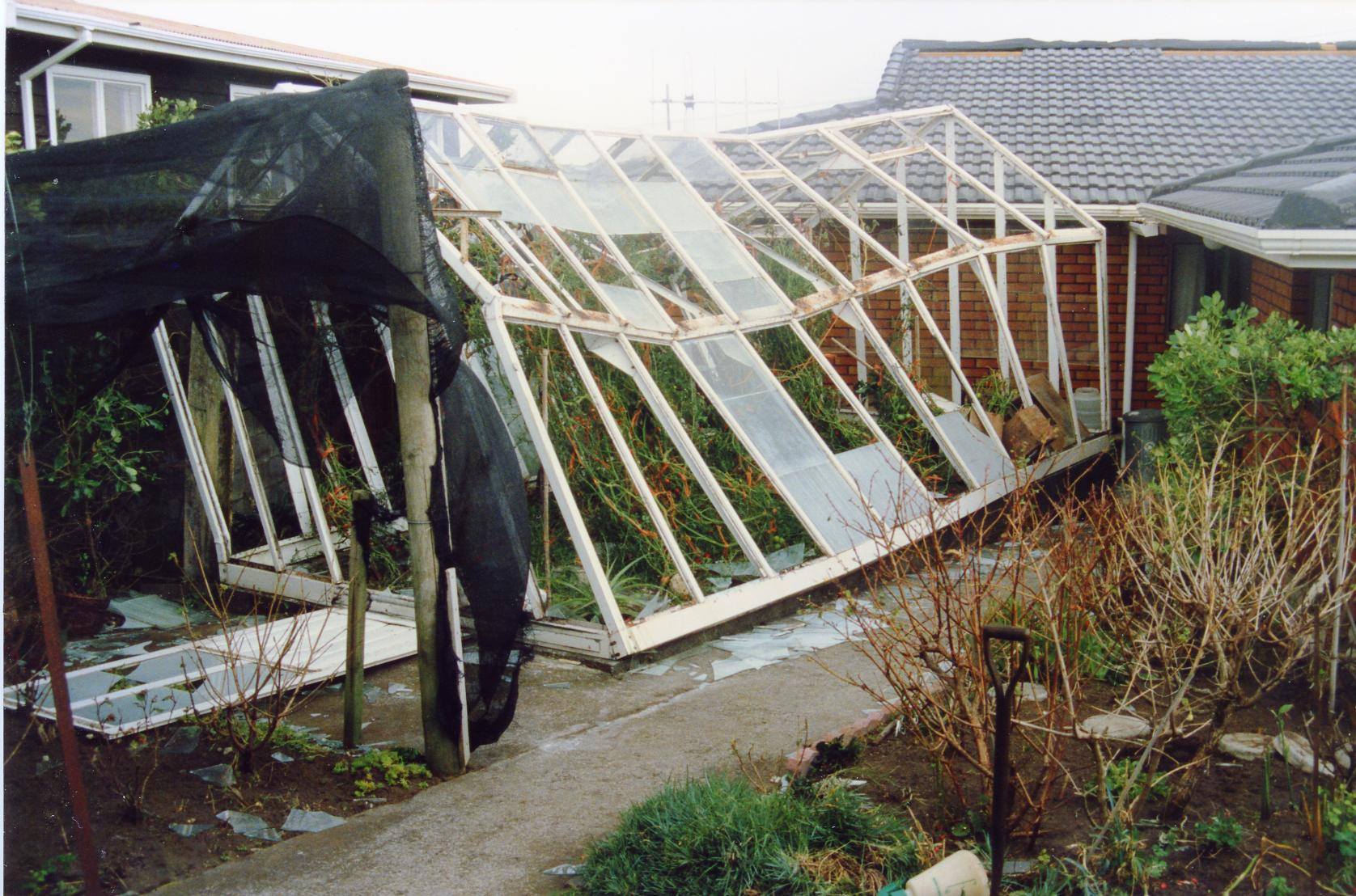 On March 7, 1988, Taranaki was hit by severe winds causing widespread damage as Cyclone Bola passed through the region. The cyclone formed in the Pacific near Vanuatu, causing damage in Vanuatu and Fiji before heading towards New Zealand. Cyclone Bola caused an estimated $90 million worth of damage across New Zealand (1988 figures). The Gisborne area was worst affected by heavy rains and 3 people were killed as their car was swept away near Tolaga Bay. As the storm dissipated, heavy rain fell over the South Island of New Zealand. The Ministry of Civil Defence was heavily involved in the response to the event and took many images of the impact across the country. This image here shows the damage caused in the Taranaki region. Archives New Zealand also holds images of the damage caused in the Gisborne area in the same series of images.